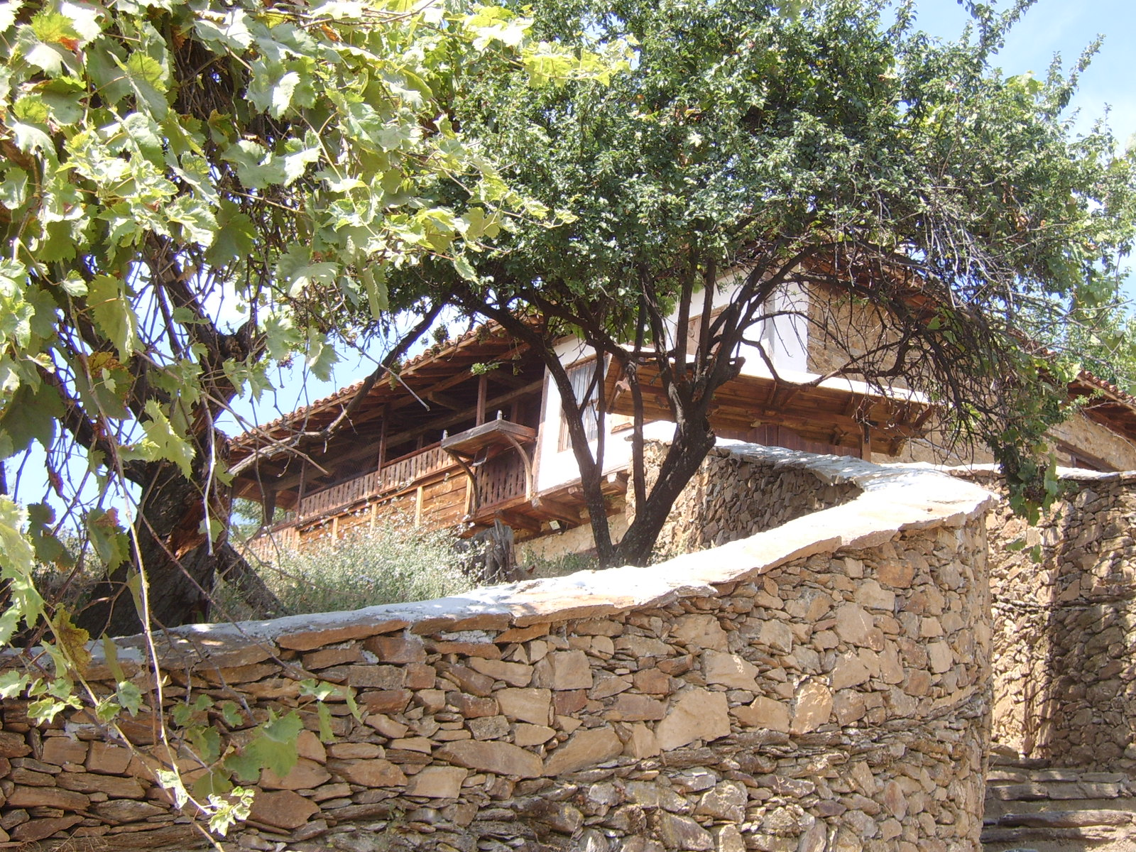 Anton Popov's house museum in Gega, Bulgaria.